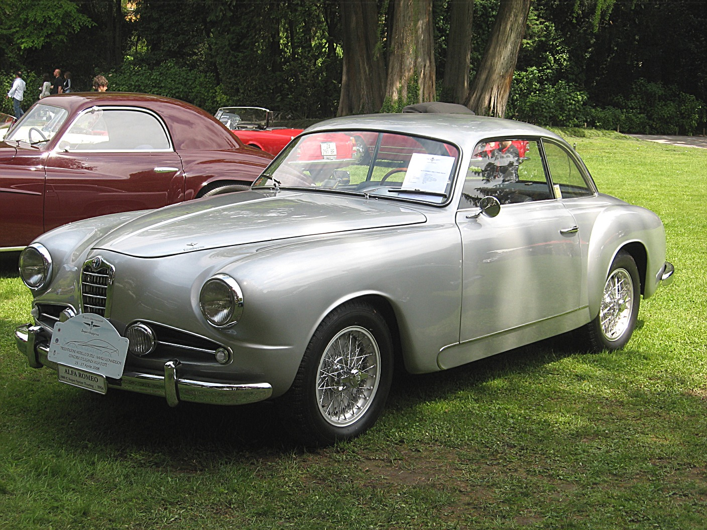 Alfa Romeo 1900 Sprint